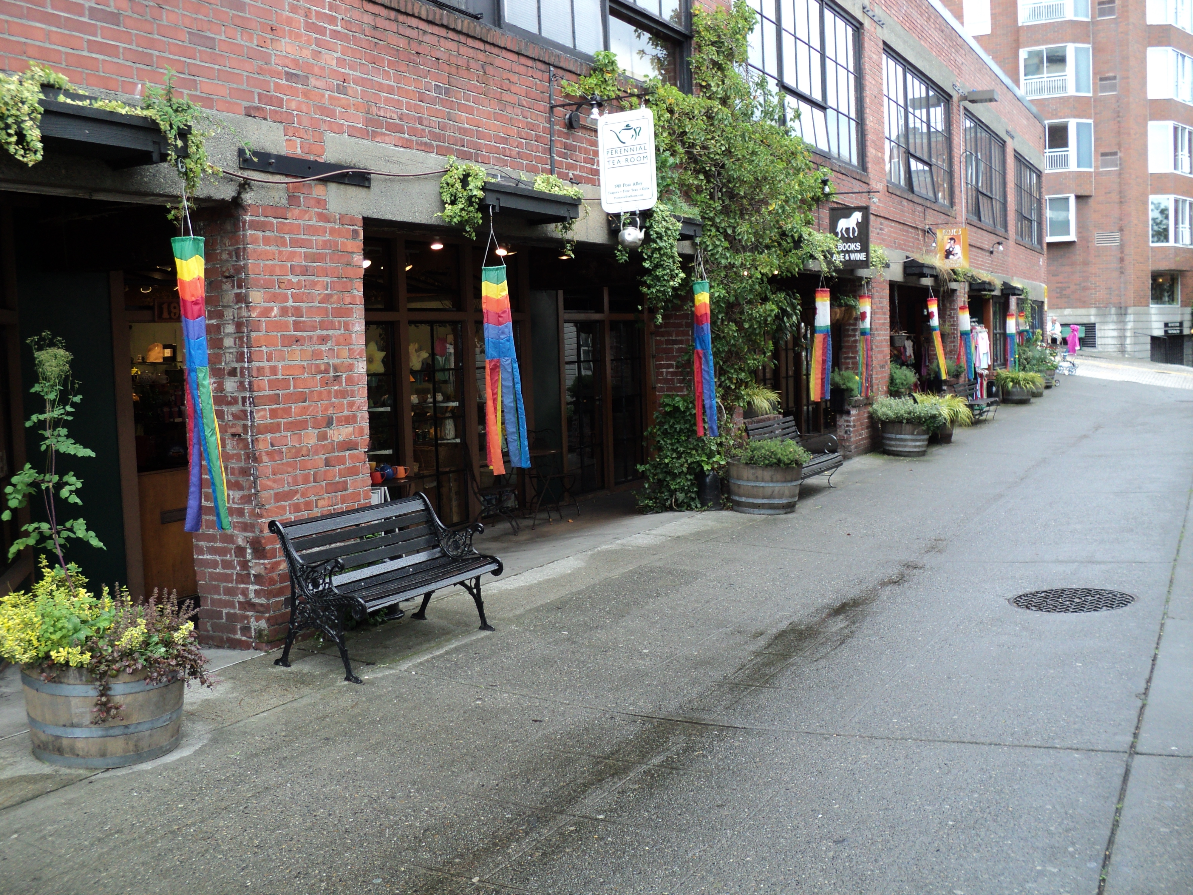 View of Post Alley, Pike Place Market, Seattle, Washington.